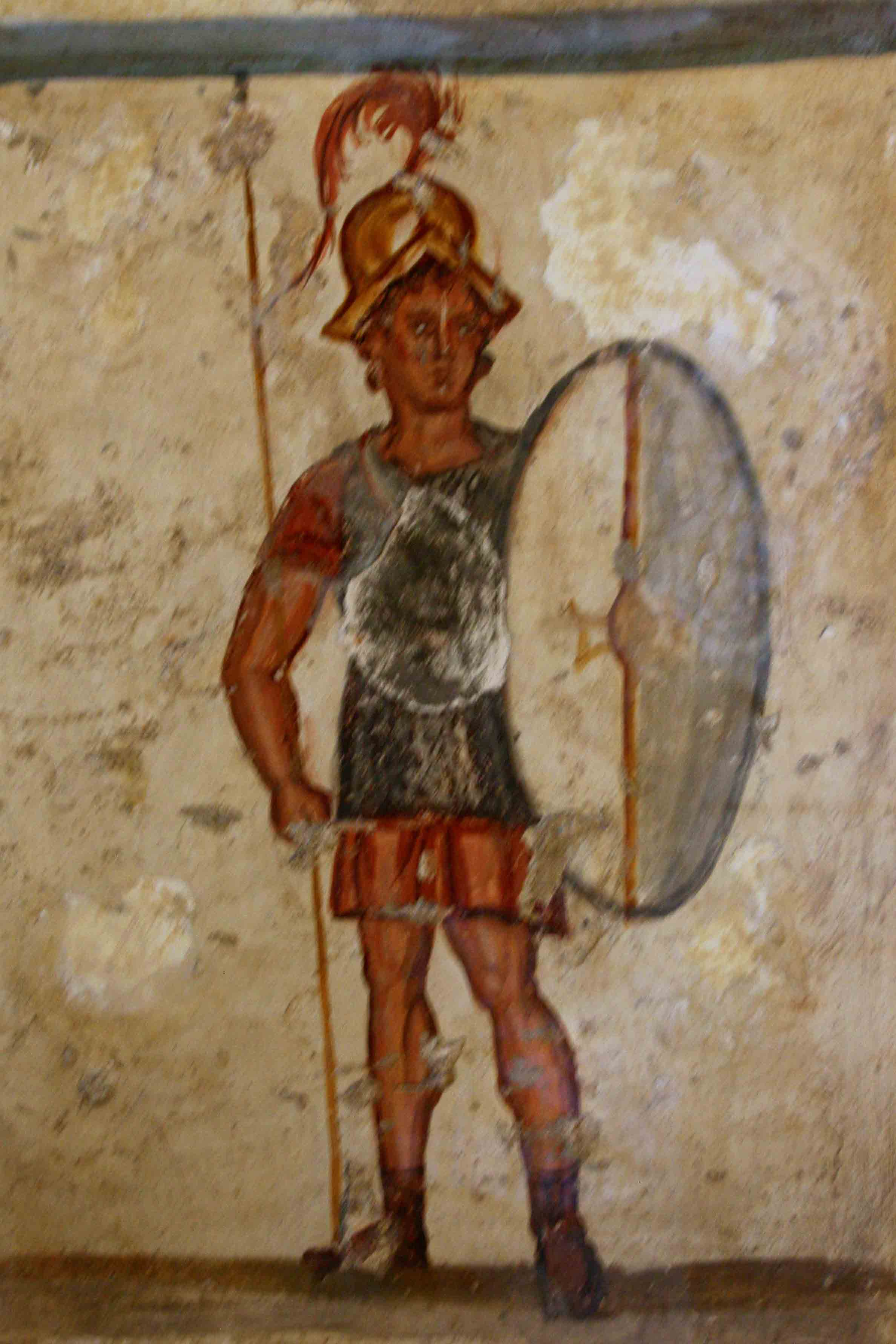 Fresco of an ancient Macedonian Greek heavy infantry soldier (thorakitai) wearing mail armor and bearing a thureos shield, 3rd century BC. Photo taken from the Archeological Museum in Istanbul.According to , the painting decorates a funerary stele from Sidon, Lebanon (then under the Seleucid Empire, a Hellenistic successor state to Alexander the Great's empire), for a soldier named Salmamodes of Adada. Istanbul Archaeology Museums Native nameİstanbul Arkeoloji MüzesiLocationIstanbul, TurkeyCoordinates41° 00′ 42″ N, 28° 58′ 53″ E Established13 June 1892Web pageIstanbul Archaeology Museum pageAuthority control : Q636978 VIAF: 139339433 GND: 10004989-8 institution QS:P195,Q636978